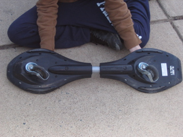 bottom view of waveboard